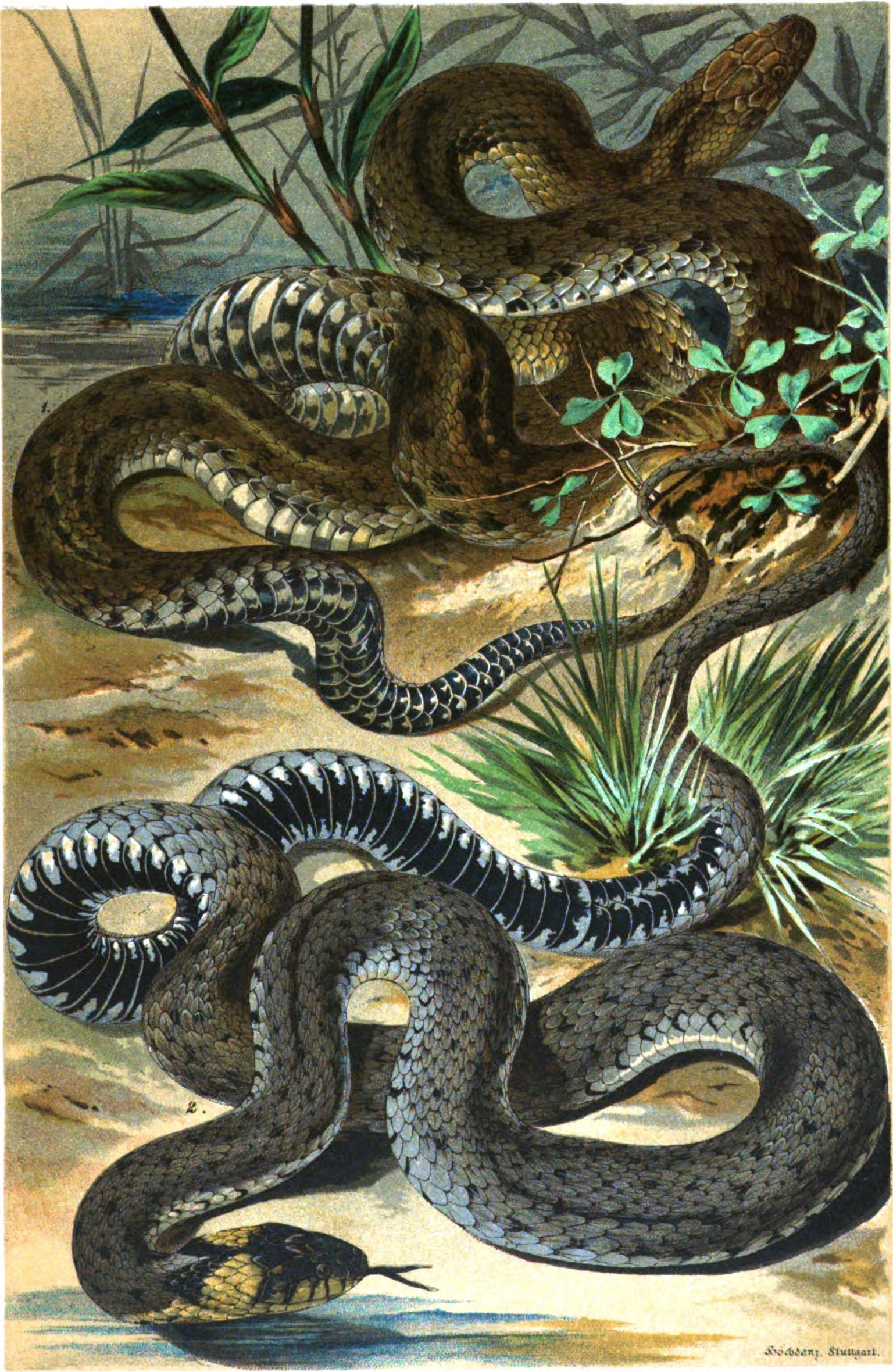 1. Würfelnatter (Tropidonotus tessellatus). 2. Ringelnatter (Trop. natrix).